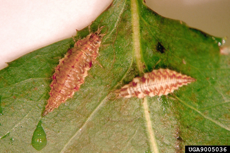 on pear psylia (Cacopsylla pyricola) nymph Actually Neuroptera nymphs? Dysmorodrepanis (talk) 17:36, 4 July 2012 (UTC)